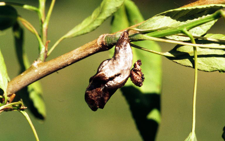 Limenitis archippus, pupa.